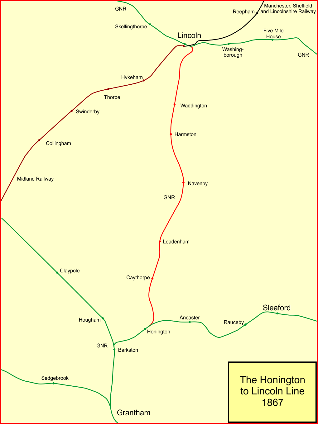 System map of the Honington to Lincoln railway in Lincolnshire, England, built by the Great Northern Railway